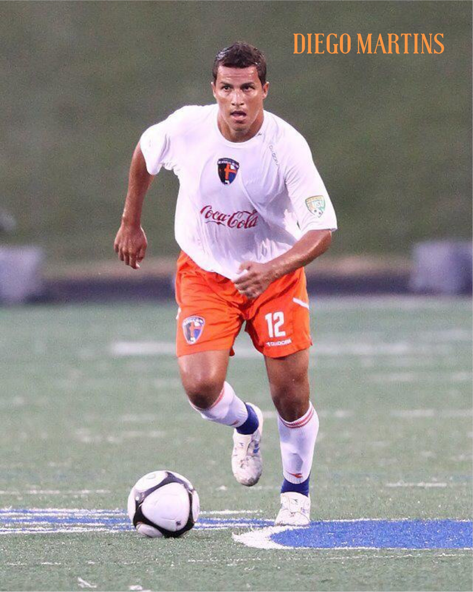 Photo of professional soccer player Diego José Martins while he was playing for Charlotte Eagles, NC.